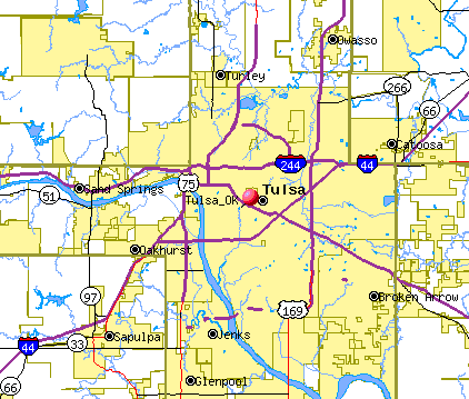 U.S. Census 2000 TIGER map of Tulsa, Oklahoma and nearby suburbs